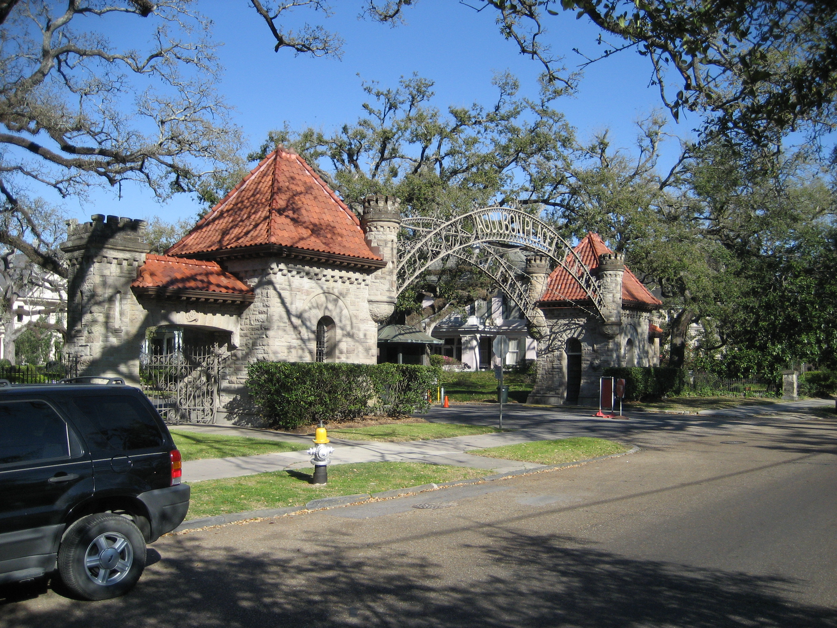 New Orleans: St. Charles Avenue at entrance to gated private street Audubon Place